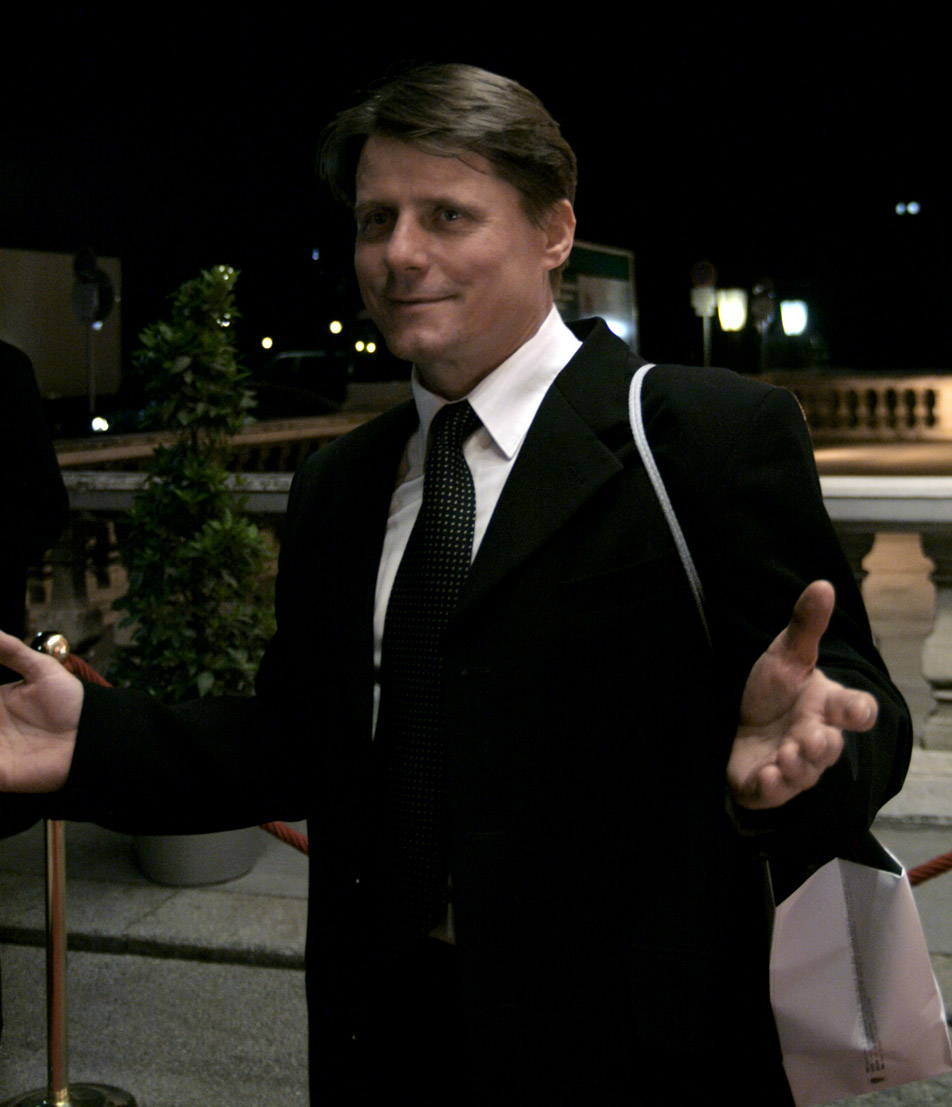 Actor Christian Spatzek at the Romy TV awards (Hofburg Imperial Palace in Vienna)